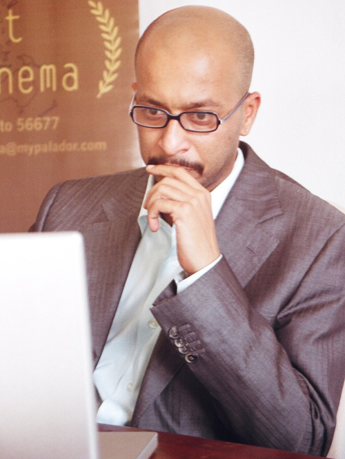 Gautam Shiknis clicked by me.